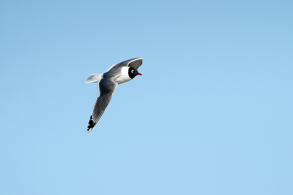 Franklin's Gull Leucophaeus pipixcan near Tule Lake, California.